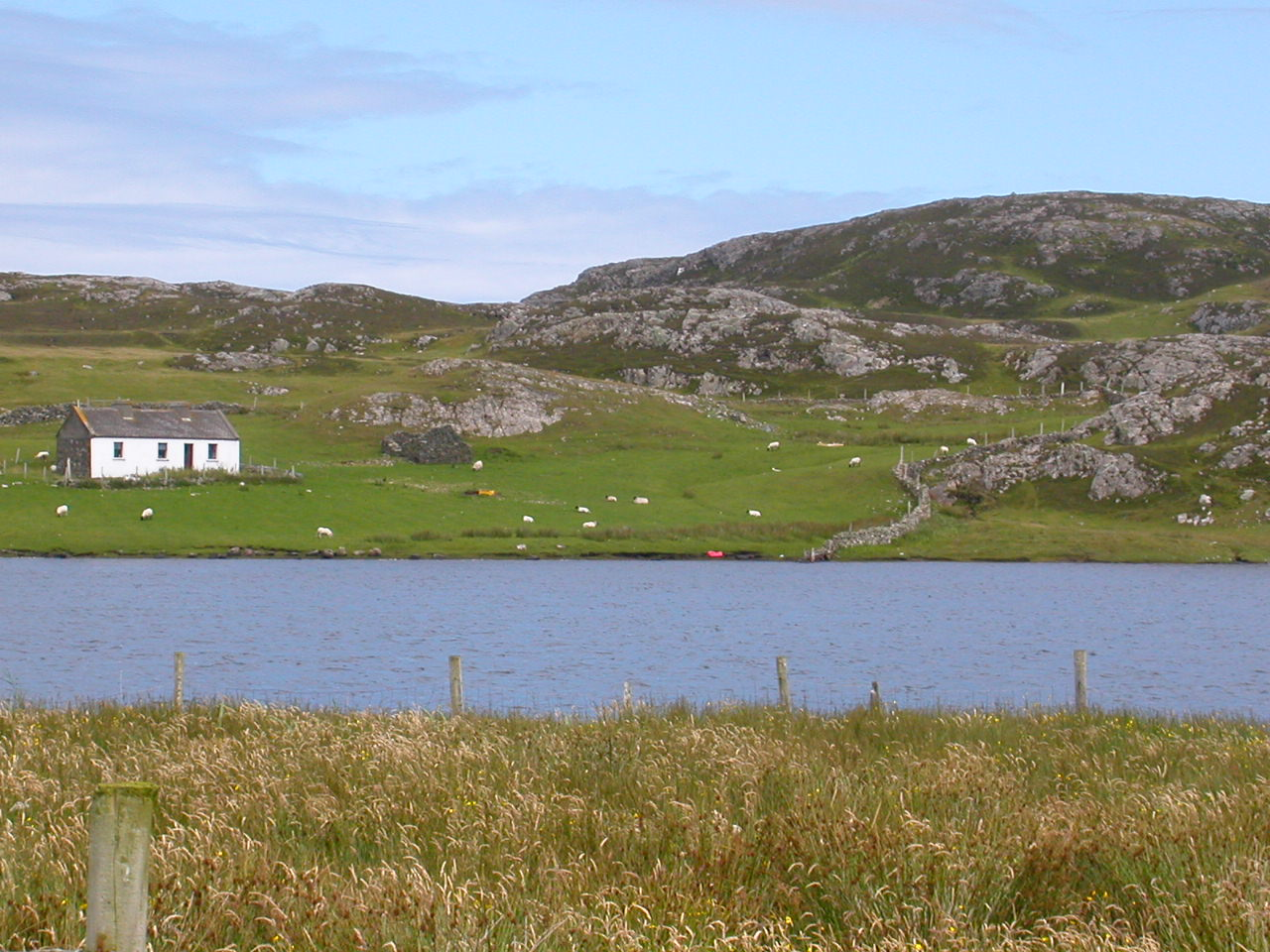 East shore of Lough Bofin.